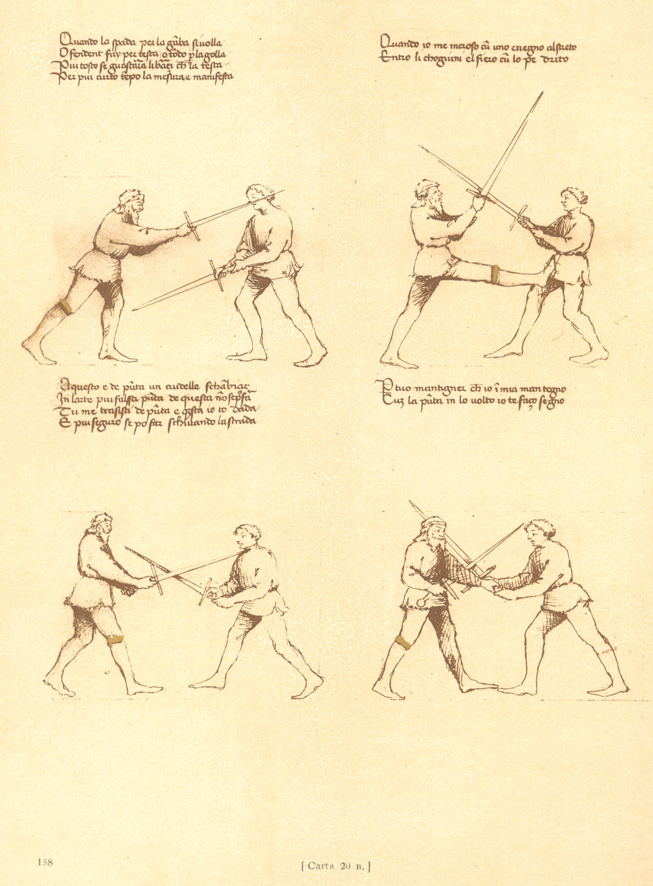 Pisani-Dossi Ms., folio 20v